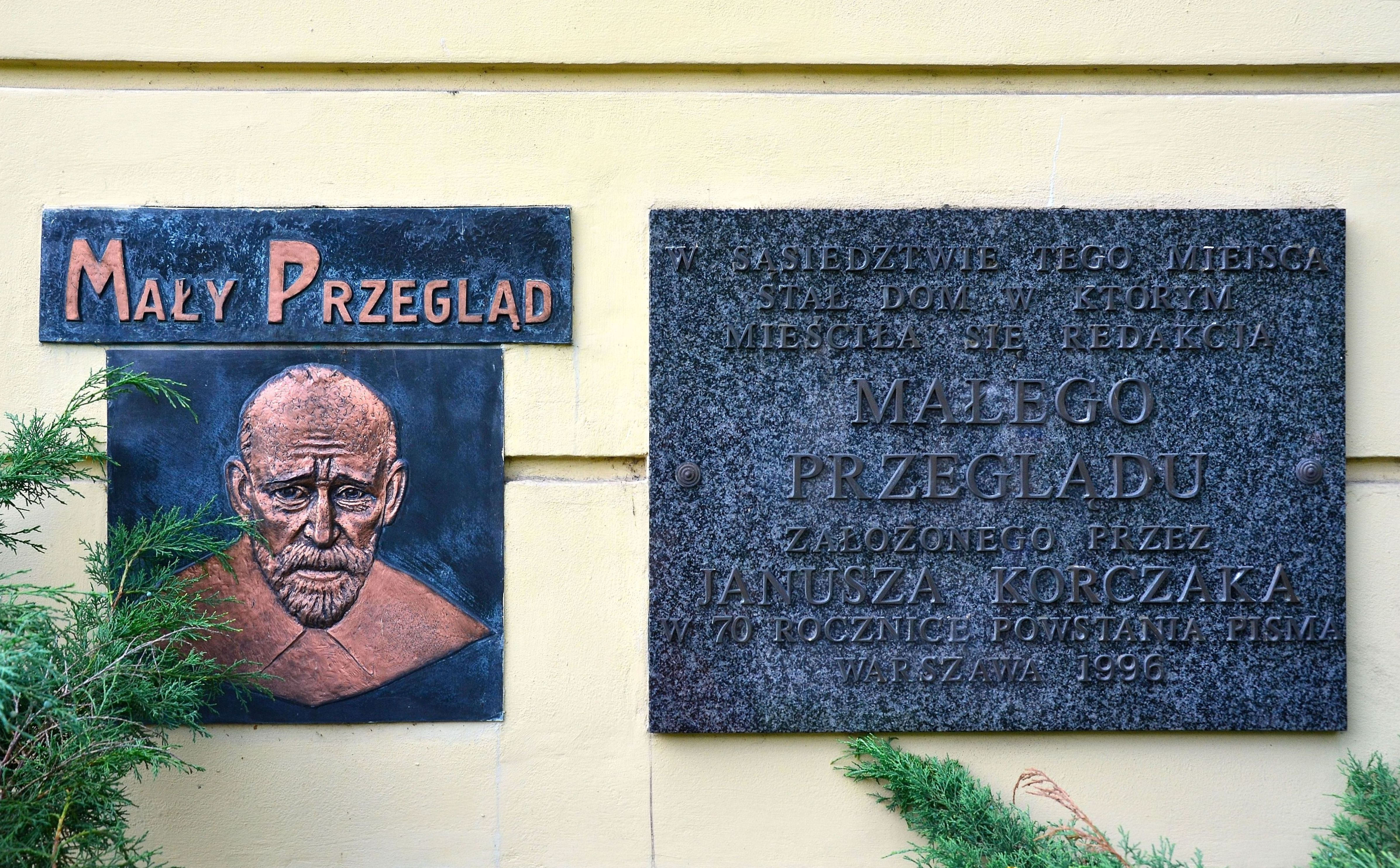 Plaque commemorating the non-existent building in which the editorial board of "Mały Przegląd" had its seat. Mostowski Palace (from Nowolipki Street side)